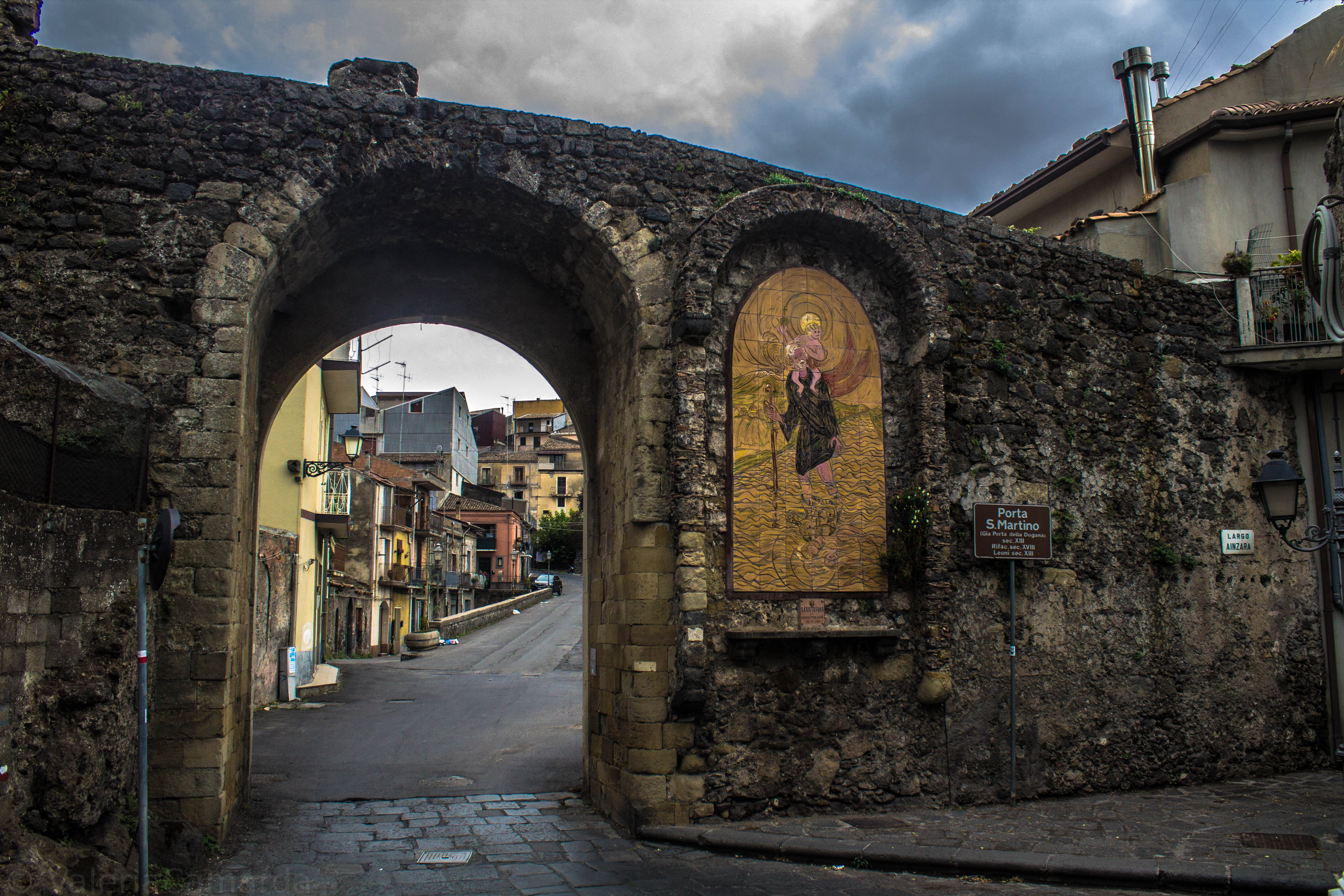 This is a photo of a monument which is part of cultural heritage of Italy.